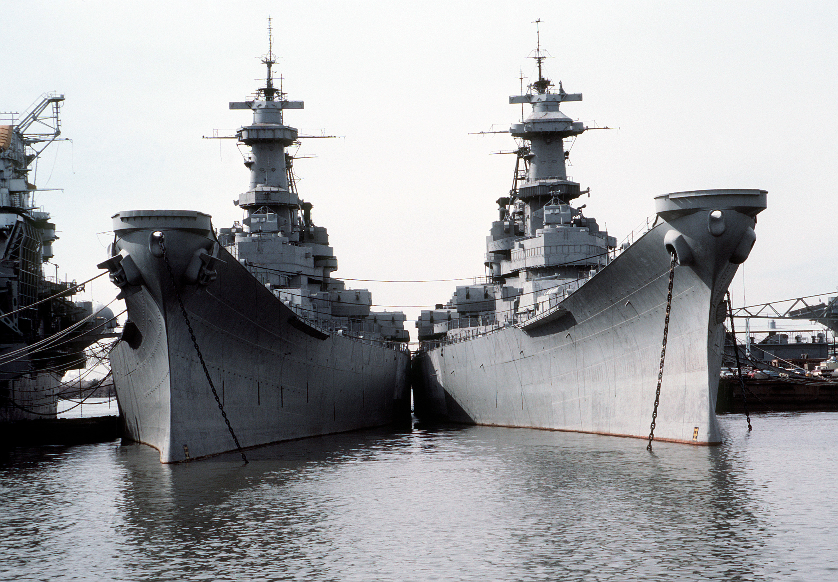 Bow view of the battleships USS Iowa (BB-61), on right, and USS Wisconsin (BB-64) in mothball storage at the Philadelphia Naval Shipyard, Pennsylvanina (USA), in February 1982. Both were slated to be returned to active service. Visible on the left is the aircraft carrier USS Shangri-La (CVS-38).